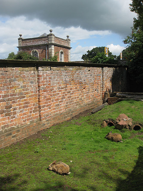 Recreated rabbit warren, Westbury. Much smaller than it would have been during the 18th century at Westbury Court where rabbits were used to supplement the diet. The summerhouse can be seen across the wall of the walled garden.